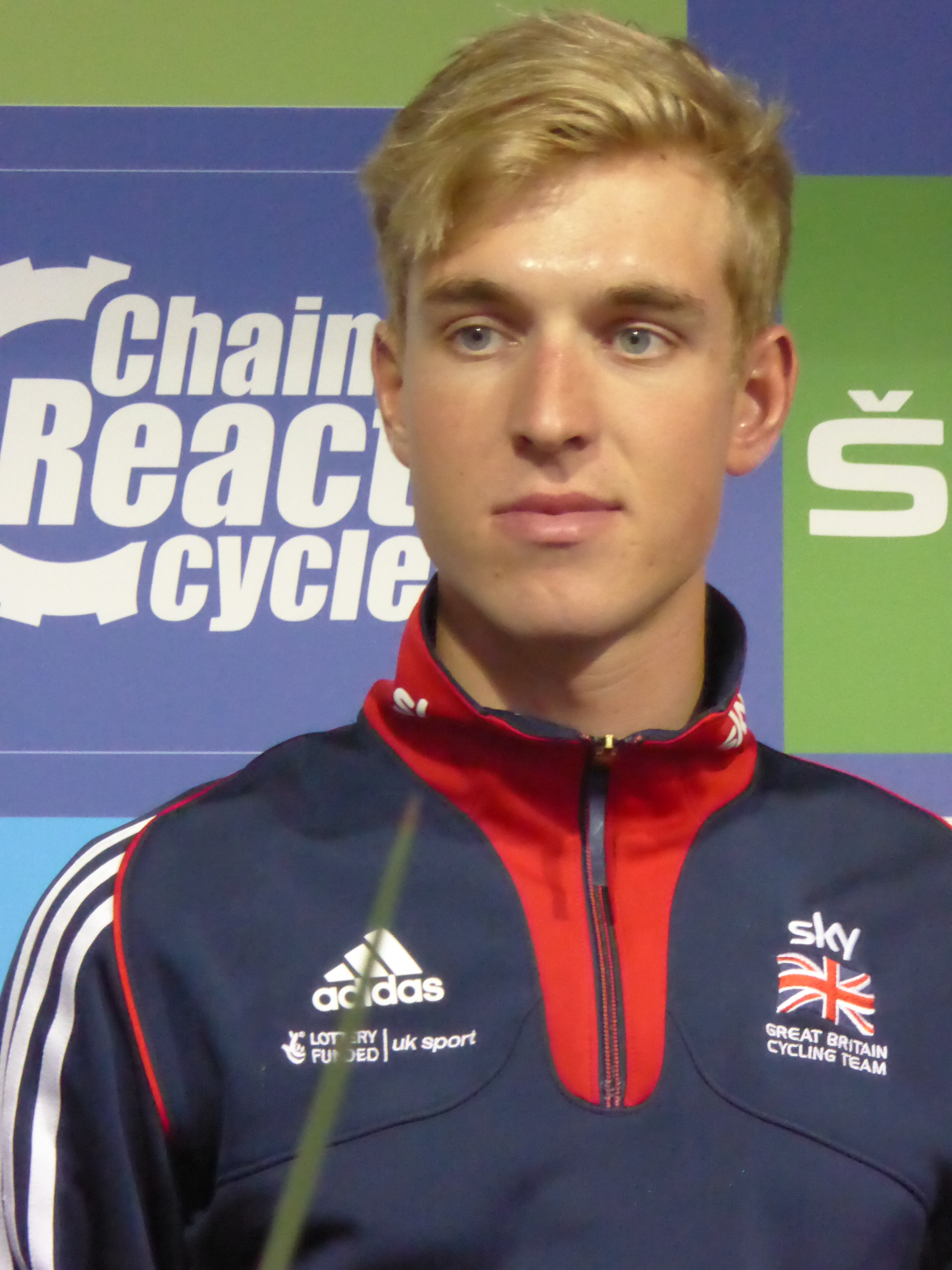 Ollie Wood (Great Britain national team), pictured at the 2016 Tour of Britain team presentation in Glasgow on 3 September 2016.